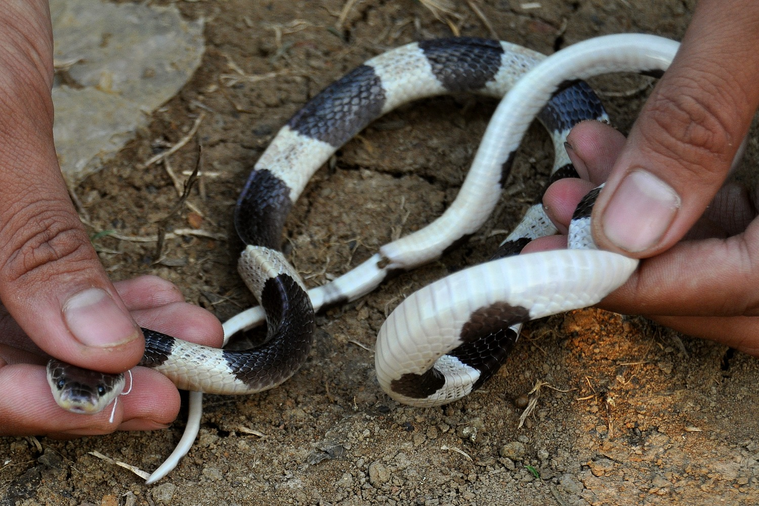 Blue krait (Bungarus candidus), ca. 70cm TL, from Karawang, West Java. Showing the all-white ventral scales.